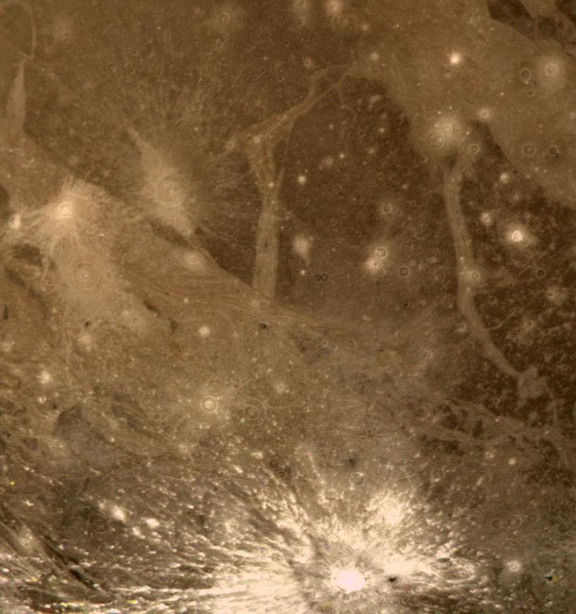 This color picture of Ganymede in the region 30 S 180 W shows features as small as 6 kilometers (3.7 miles) across. Shown is a bright halo impact crater that shows the fresh material thrown out of the crater. In the background is bright grooved terrain that may be the result of shearing of the surface materials along fault planes. The dark background material is the ancient heavily cratered terrain -- the oldest material preserved on the Ganymede surface.